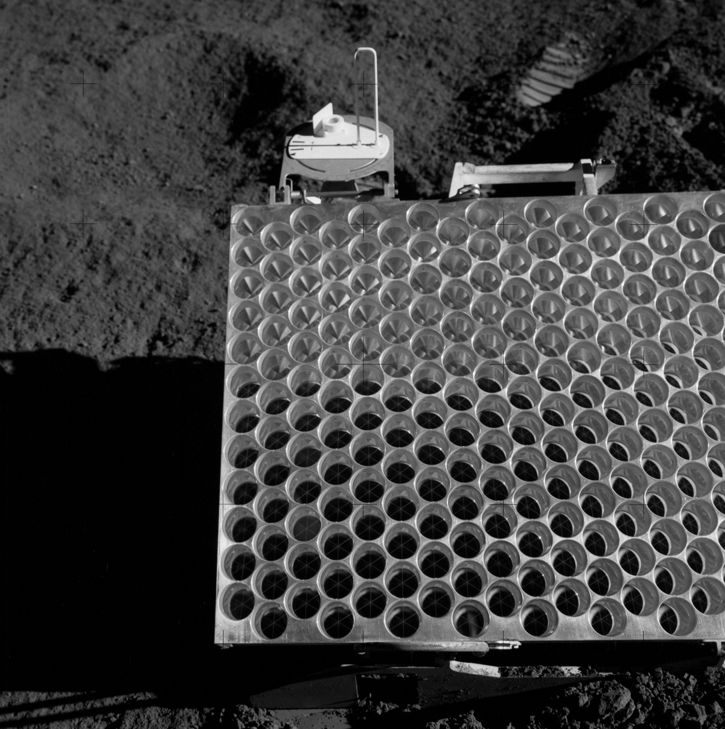 Apollo 15's Lunar Ranging Retro Reflector (LRRR). Original Caption: 125:33:21 Dave took this cross-Sun from the south of the LRRR, showing the orientation gnomon and bubble level. The LRRR, reflects laser pulses back to the telescopes on Earth used to illuminate it. By measuring the two-way travel time between the telescope and the LRRR, experiments can determine the distance between the two to a few centimeters and address such issues as Einstein's Theory of General Relativity and the existence of a liquid lunar core. As of February 2005, the retroreflectors deployed on Apollos 11, 14, and 15 were still being used in conjunction with a dedicated facility at the MacDondald Observatory in Texas.